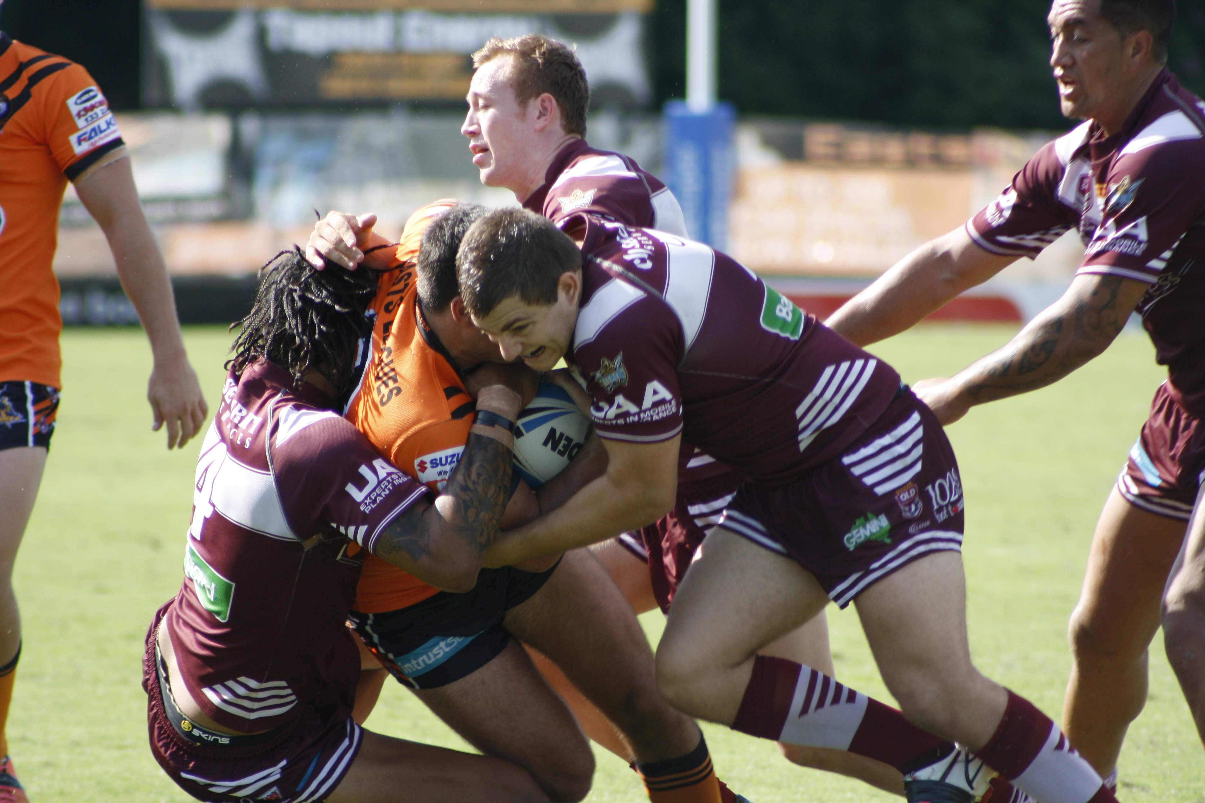 Easts Tigers versus Burleigh Bears at Langlands Park, Brisbane Australia. April 20, 2014.